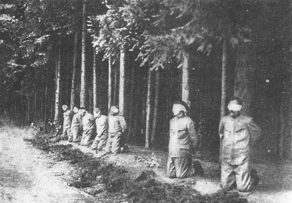 Execution of the leaders of the mutiny in the 7th Rifle Regiment's Replacement Battalion, Rumburk, 21 May 1918.